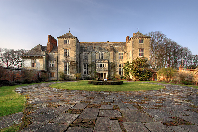 Cranborne Manor from the South Court, near to Cranborne, Dorset, Great Britain. In the centre of the pond is 'La Source' a water sculpture by Angela Conner.